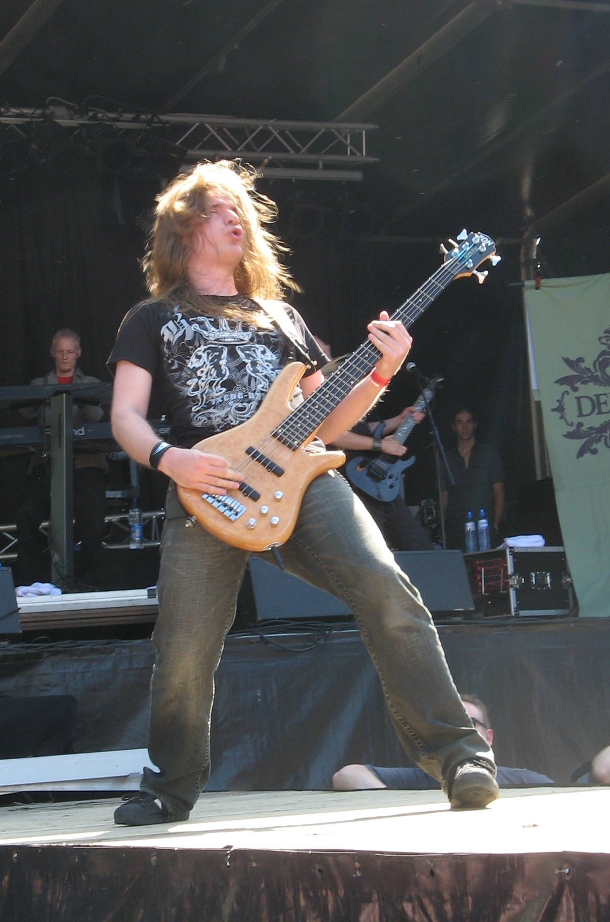 Rob van der Loo Delain on Westerpop 2007.